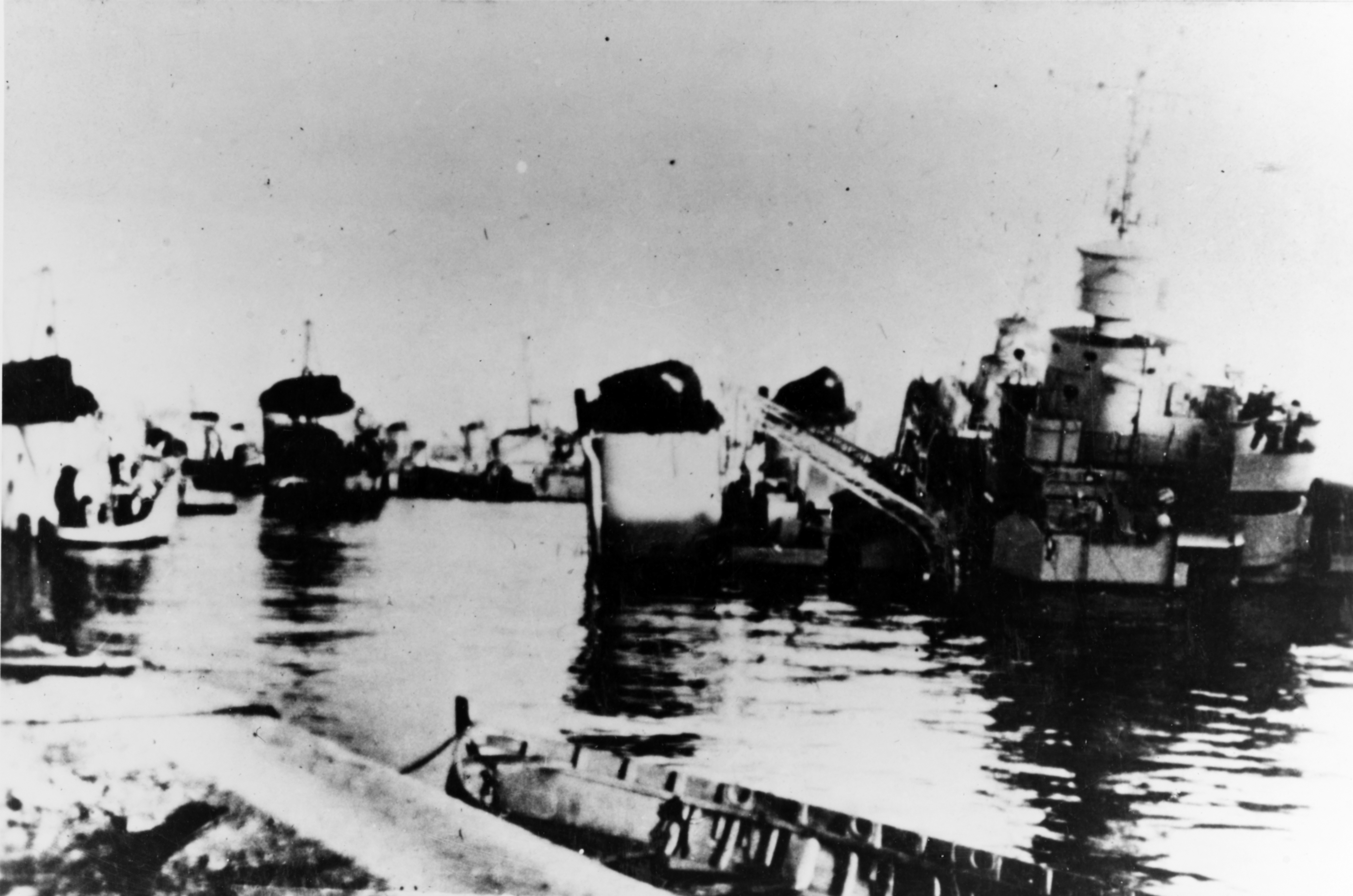 The French destroyer L'Adroit after being scuttled, behind her is the destroyer Volta